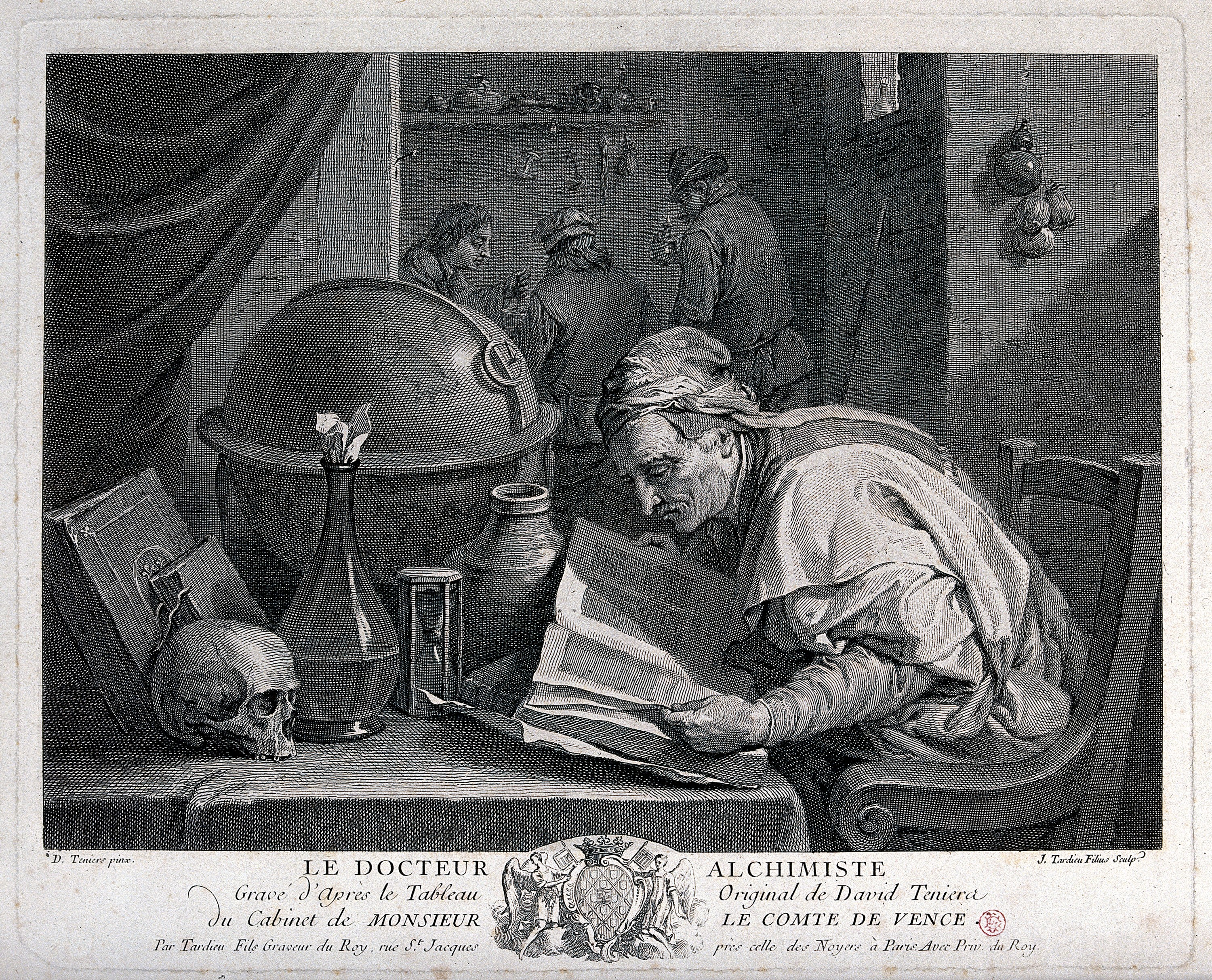 An alchemist poring over a book, on his table stand an hour-glass, a skull, and an astrological globe. Engraving by J.N. Tardieu after D. Teniers the younger, 1640/1650. Iconographic Collections Keywords: David Teniers; Jacques Nicolas Tardieu